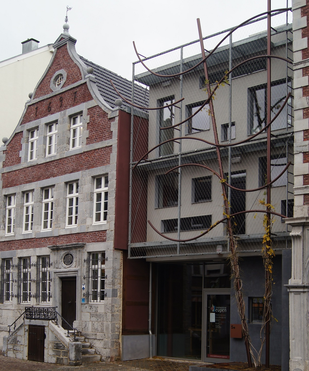 Stadtmuseum Eupen, old and new building, December 2018